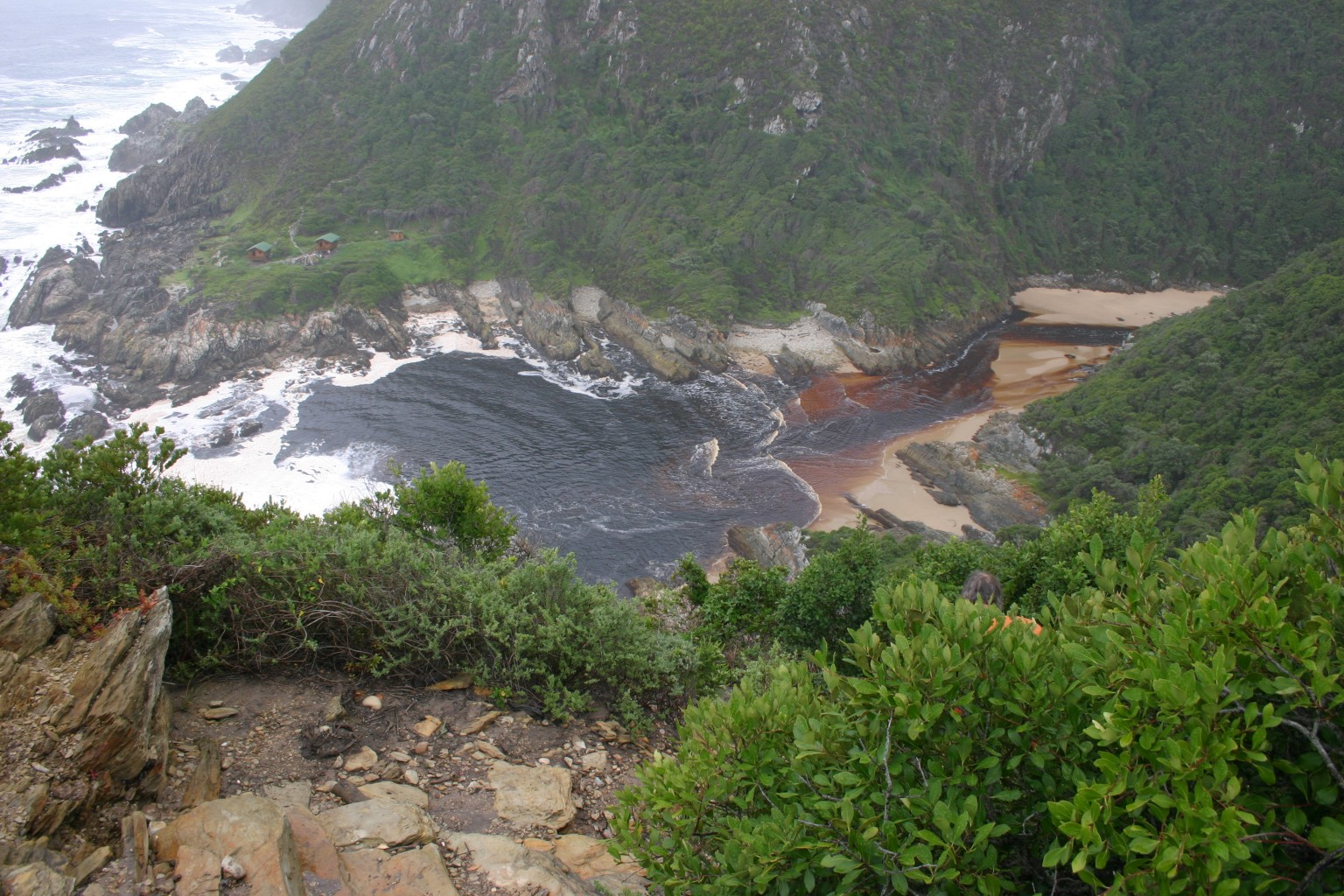 Scene on Otter Trail, South Africa, Scott's Huts at the Geelhoutbosrivier mouth